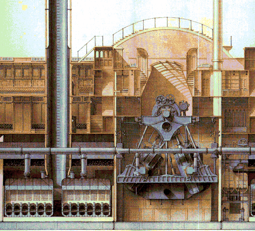 „The oscillating engine reached it's zenith in some of the huge units built for marine service, those of Brunel's Great Eastern shown above being the largest of all time. This was because they were relatively compact with a low centre of gravity. Note the detailed watercoloured engineering cross sectional drawing typical of the period.”